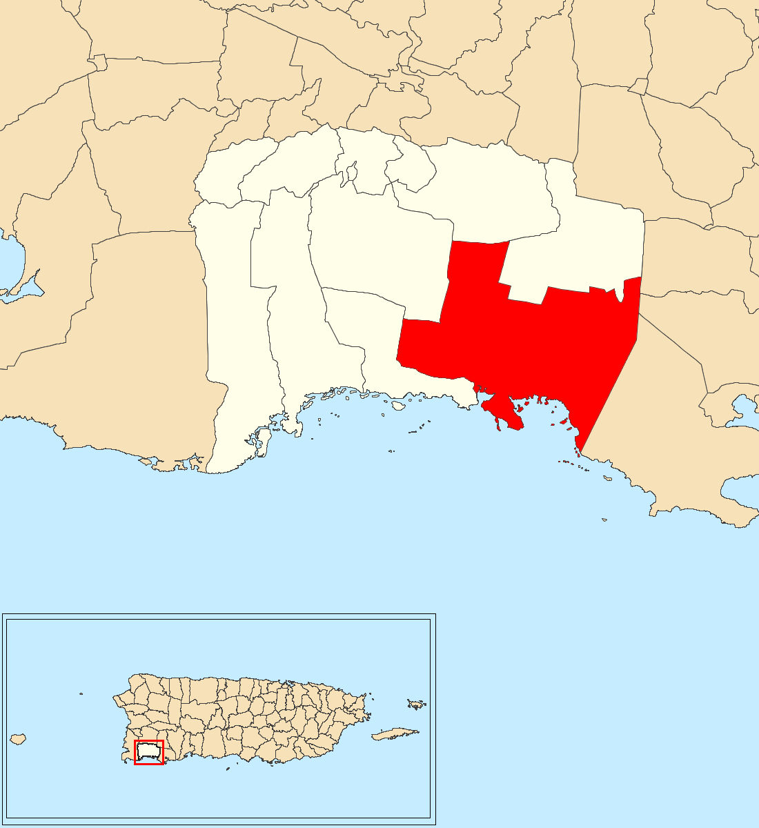 Costa, Lajas, Puerto Rico locator map